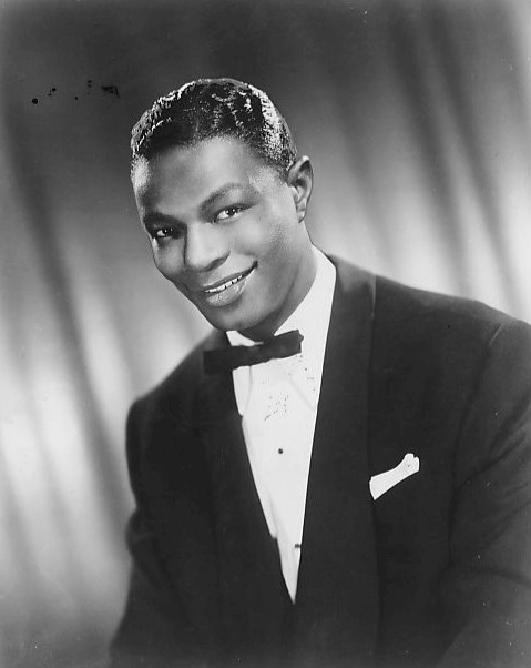 Photo of Nat King Cole in 1952.